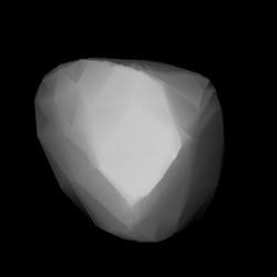 3D convex shape model of 1165 Imprinetta, computed using light curve inversion techniques. J. Hanuš, J. Ďurech, M. Brož, B. D. Warner (June 2011). "A study of asteroid pole-latitude distribution based on an extended set of shape models derived by the lightcurve inversion method". Astronomy and Astrophysics 530: A134. ISSN 0004-6361. arXiv